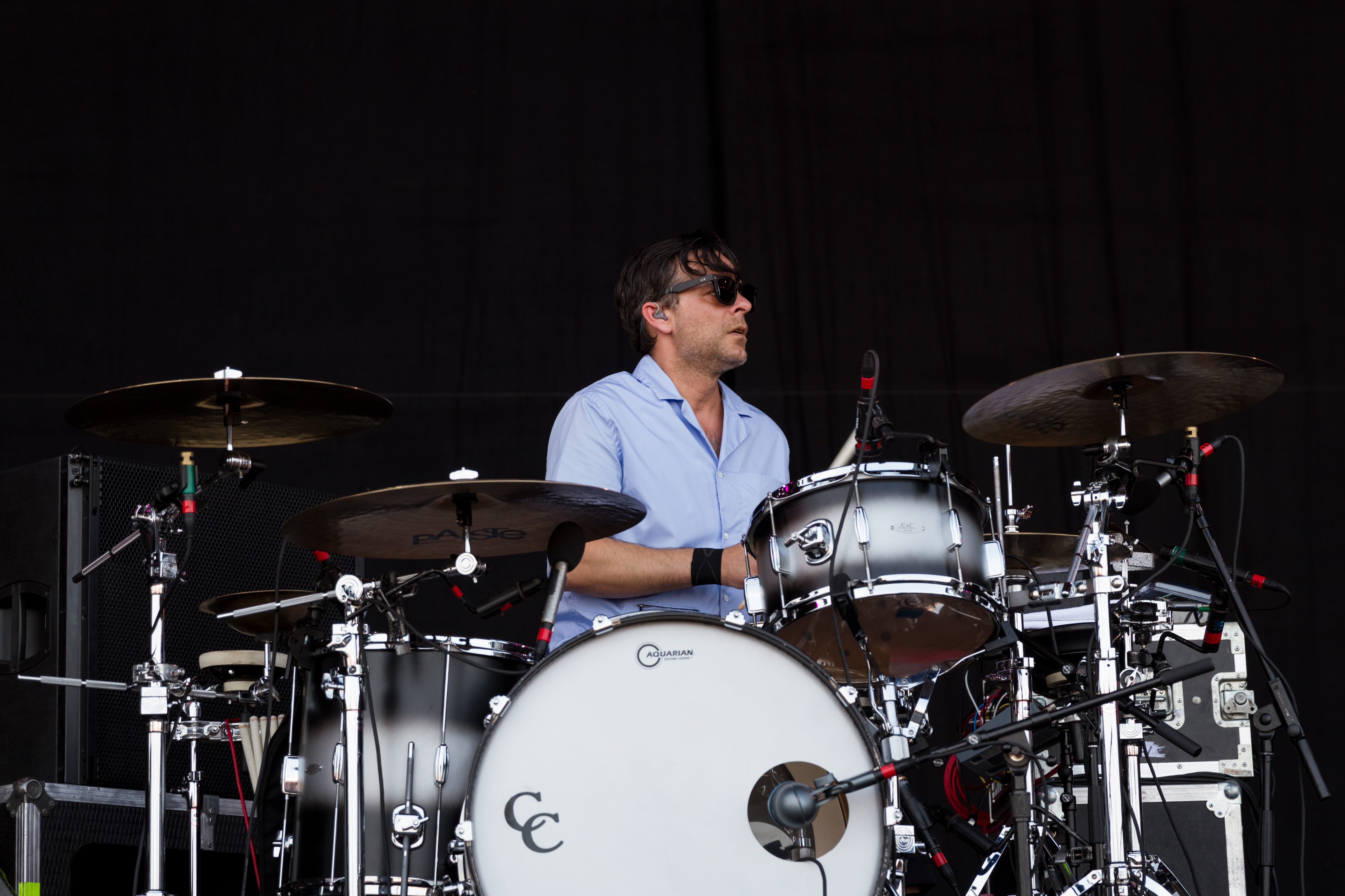 Interpol (Band) - Rock am Ring 2015